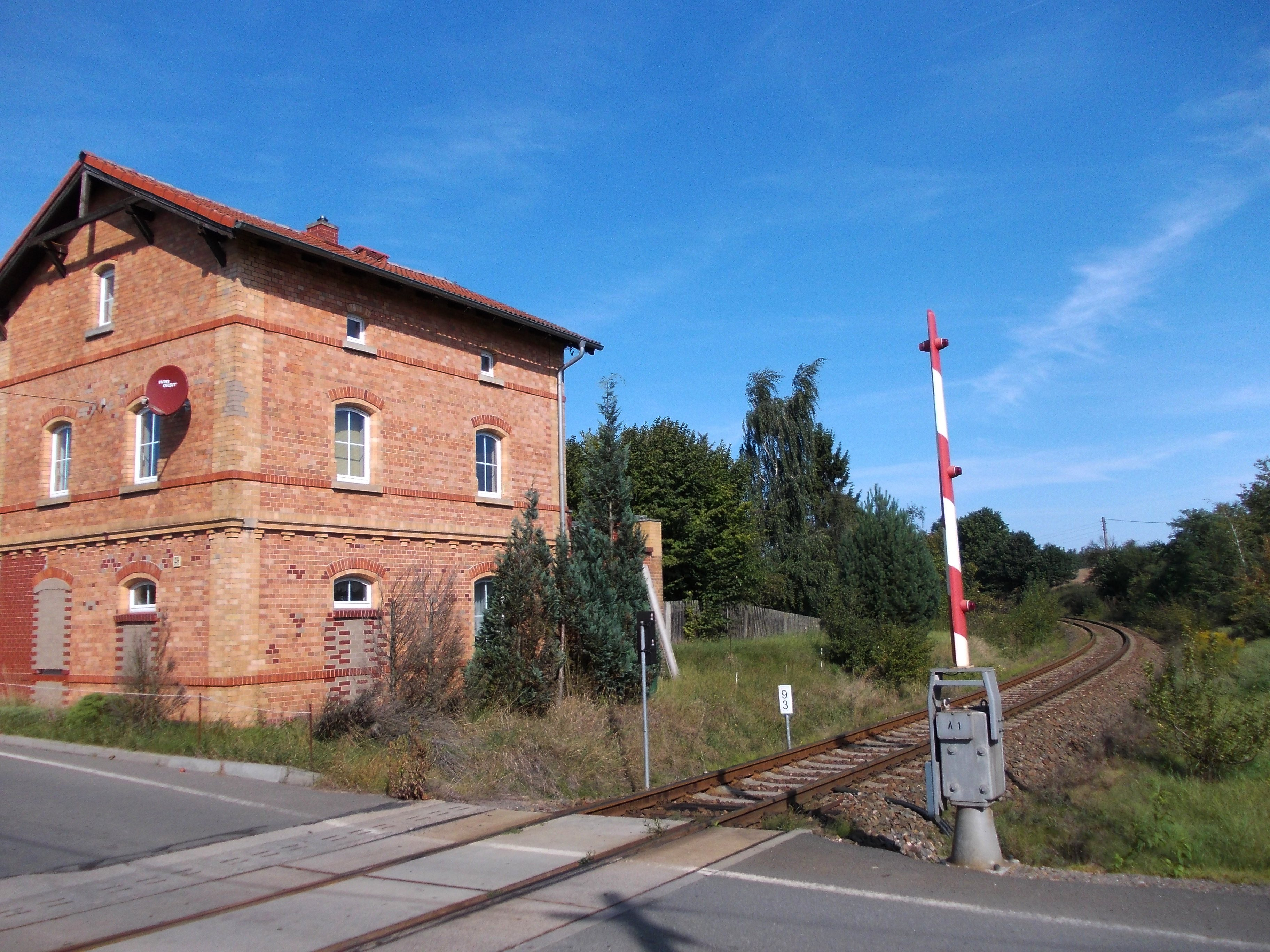 Former Reichstädt train station in Frankenau (Reichstädt, Greiz district, Thuringia) at the Meuselwitz-Ronneburg railway line